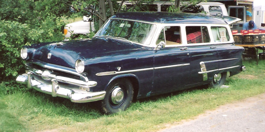 1953 Ford Country Sedan station wagon I photographed at Endicott Estates in Dedham, Massachusetts.